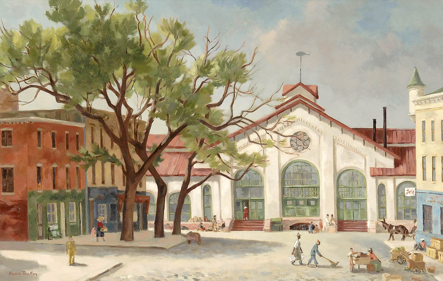 Savannah Landscape, The City Market by Andrée Ruellan, oil on canvas, 26¼ x 40¼ inches, circa 1943